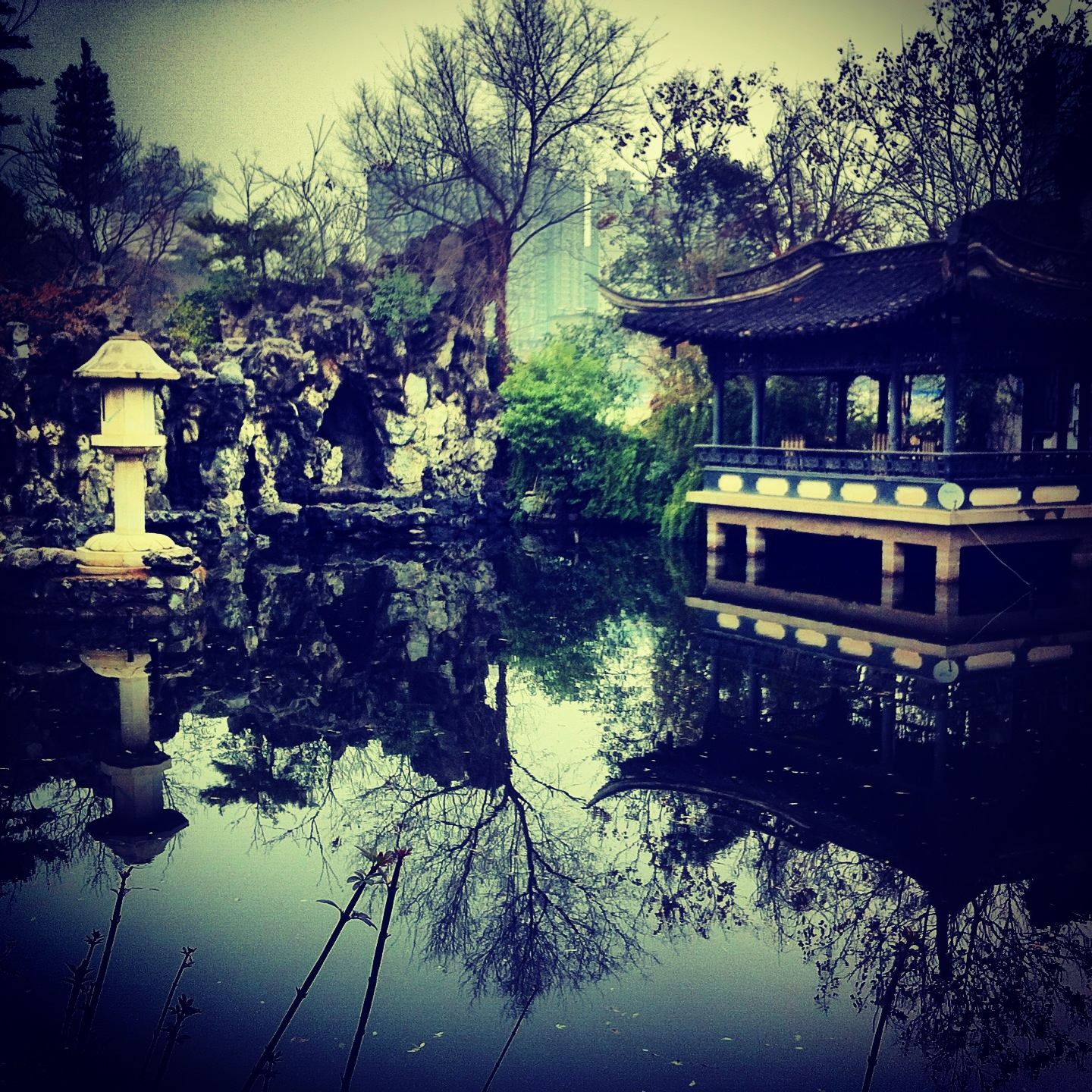 包河浮莊（徽派園林）